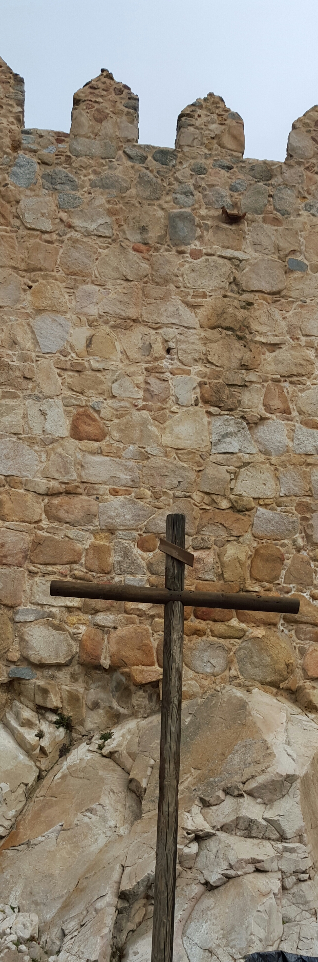 Via Crucis in Holy Week in Ávila, Spain